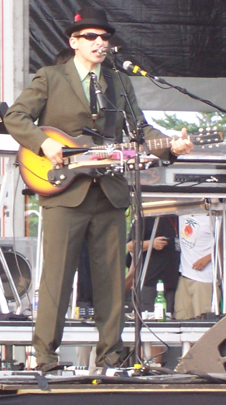 Adam Horovitz, better known as Ad-Rock from Beastie Boys